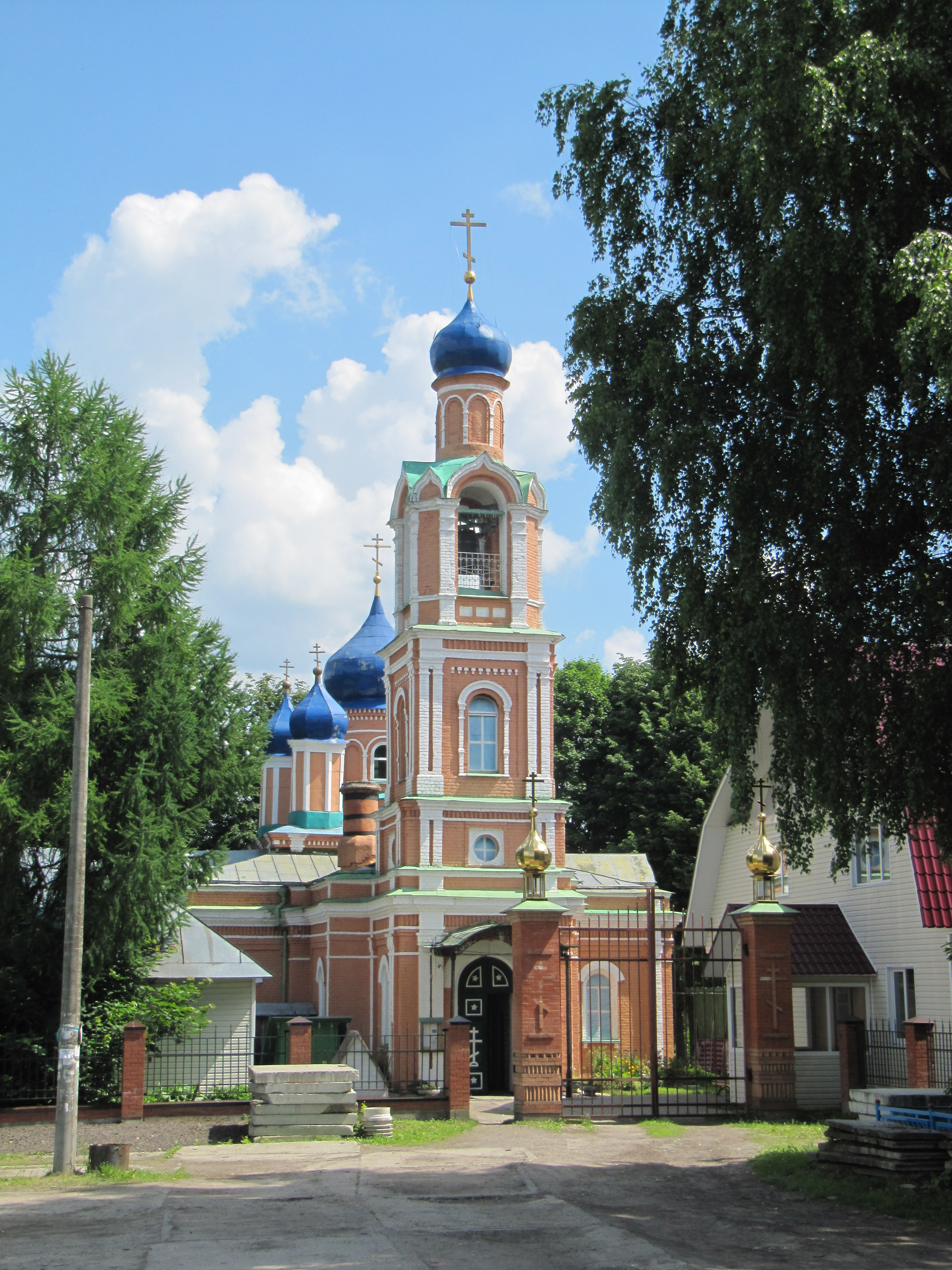 Church of Archangel Michael. Village Beliy Rast, Dmitrovsky district, Moscow region.